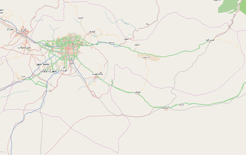 This map may be incomplete, and may contain errors. Don't rely solely on it for navigation.